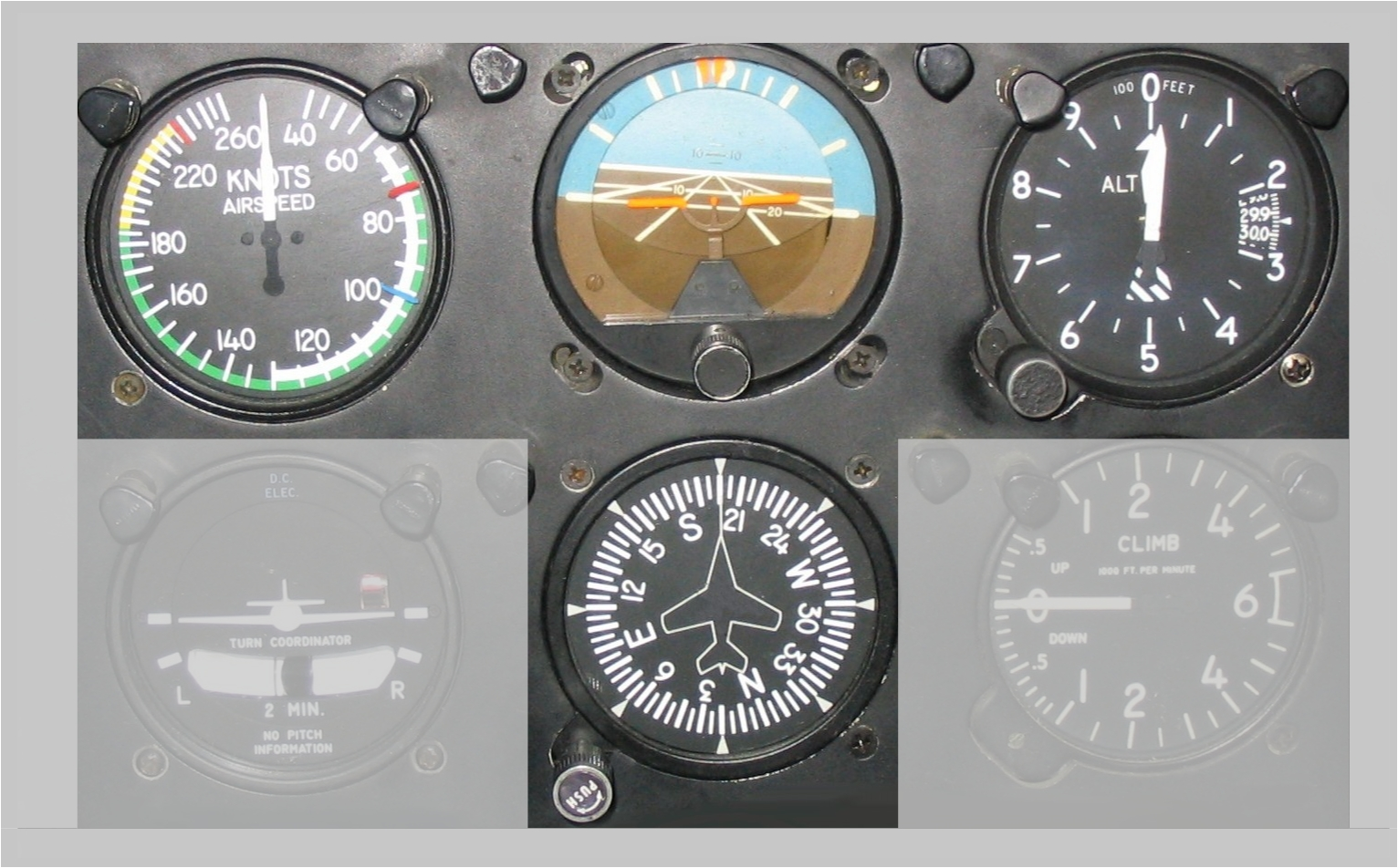 six flight instruments; basic-T, basic flight instruments, IFR flight